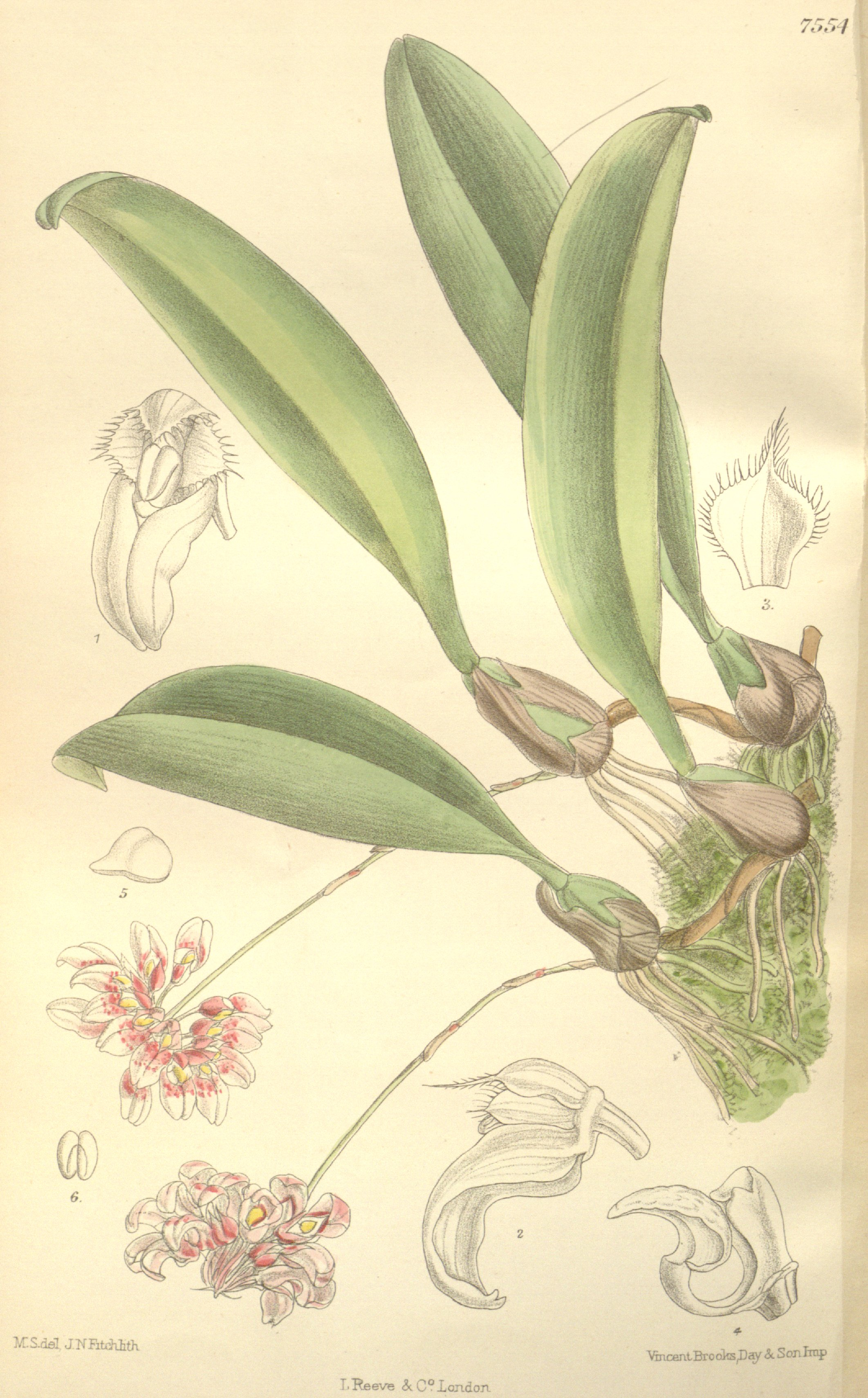 Illustration of Bulbophyllum corolliferum or Cirrhopetalum curtisii